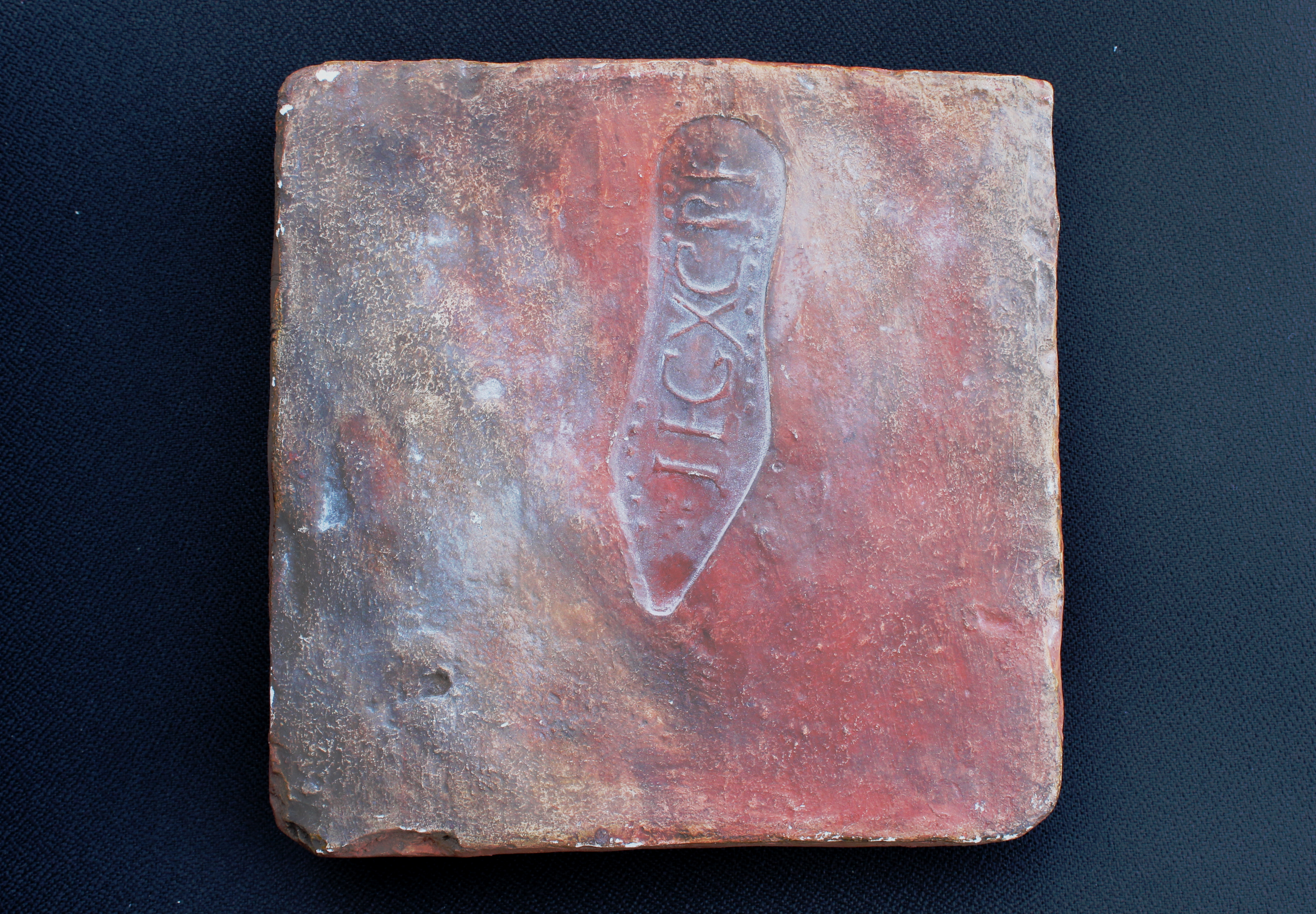 Mušov - Roman fortress (175-180 AC). Brick with Legion Xth seal. Copy